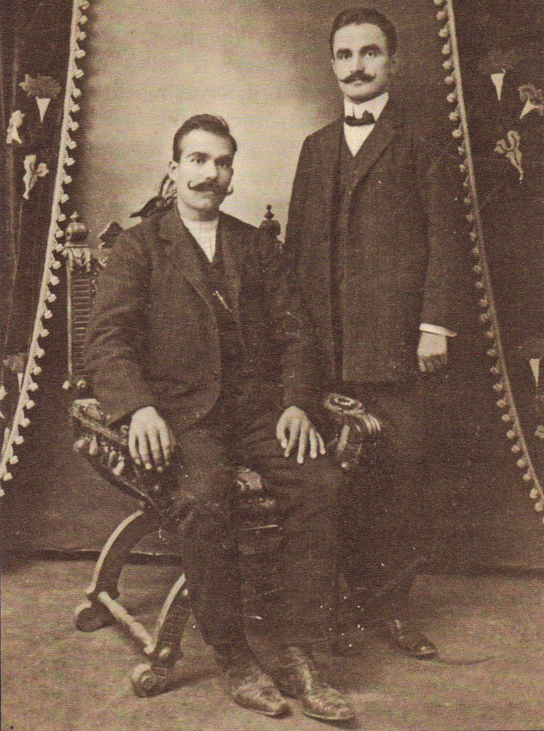 Boris and Georgi Monchevi